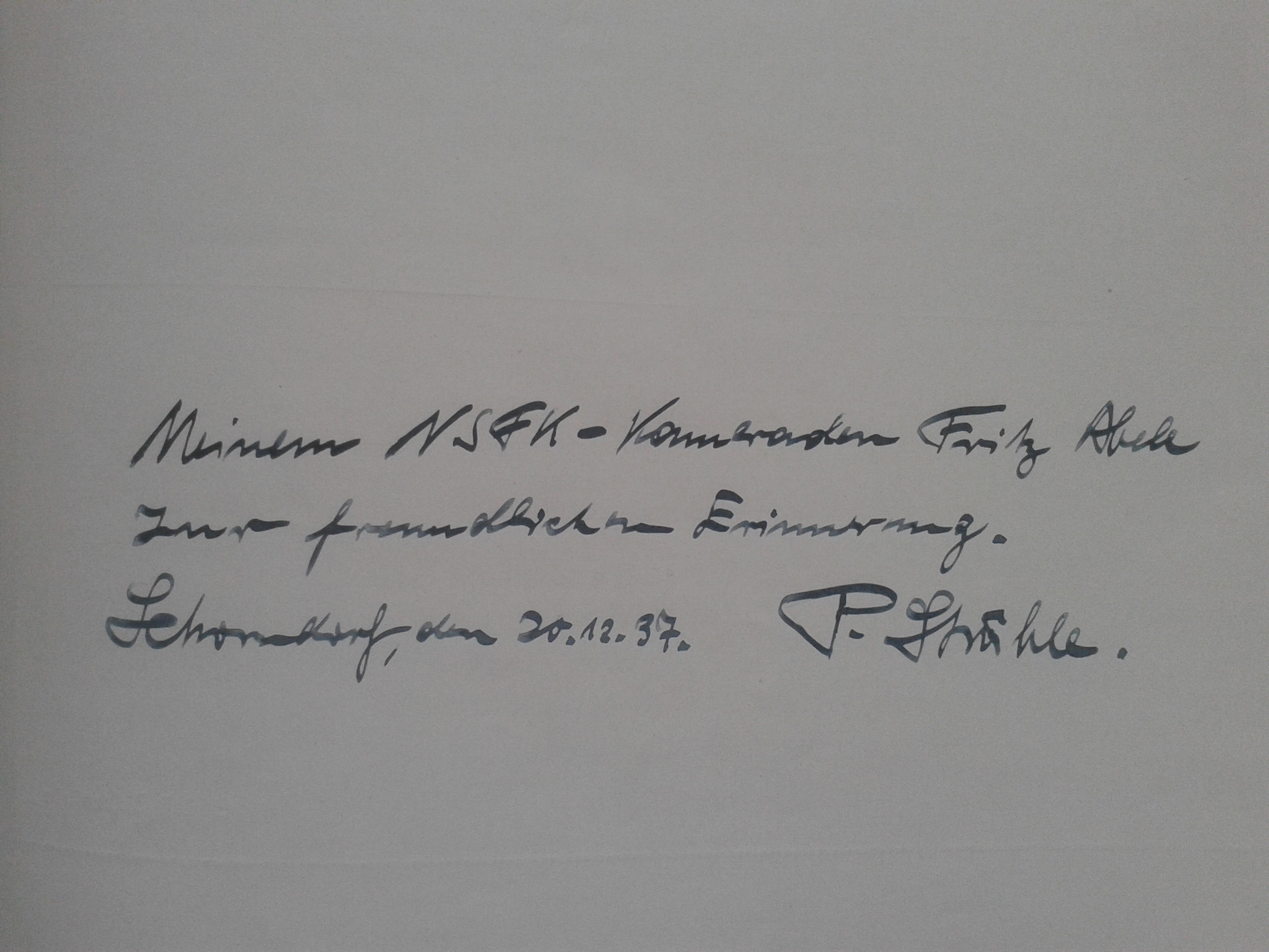 Paul Strähle (1893-1985) : Book dedication to Fritz Abele (NSFK) and signature 1937. Collection Markus Wolter